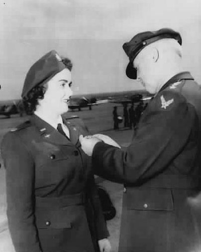 Barbara Erickson, WASP pilot, receives a medal.